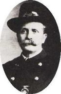 photo of Bill Tilghman jr in 1912